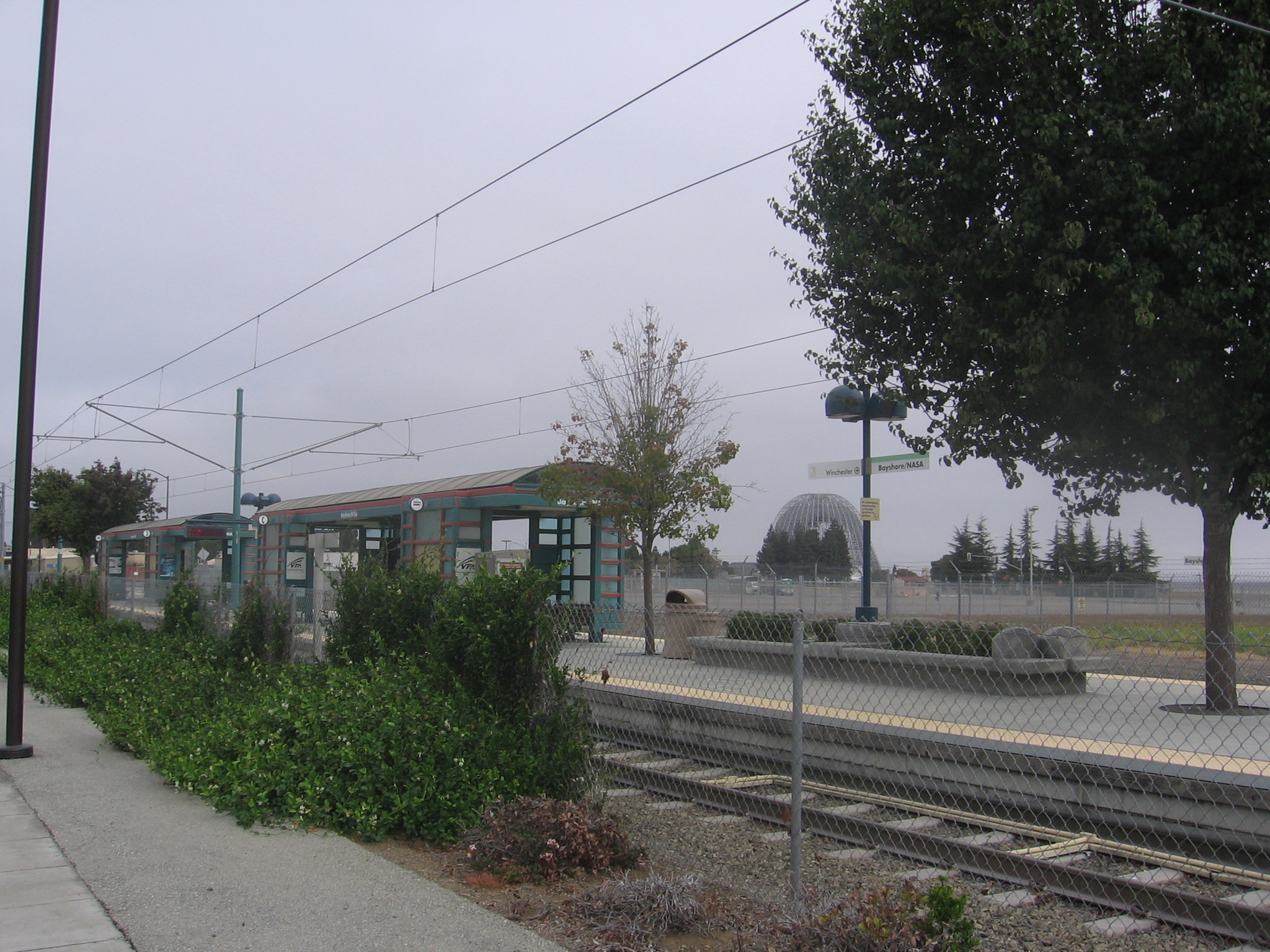 The Bayshore-NASA VTA station with the skeletal remains of Hangar One (Mountain View, California) visible in the distant background.